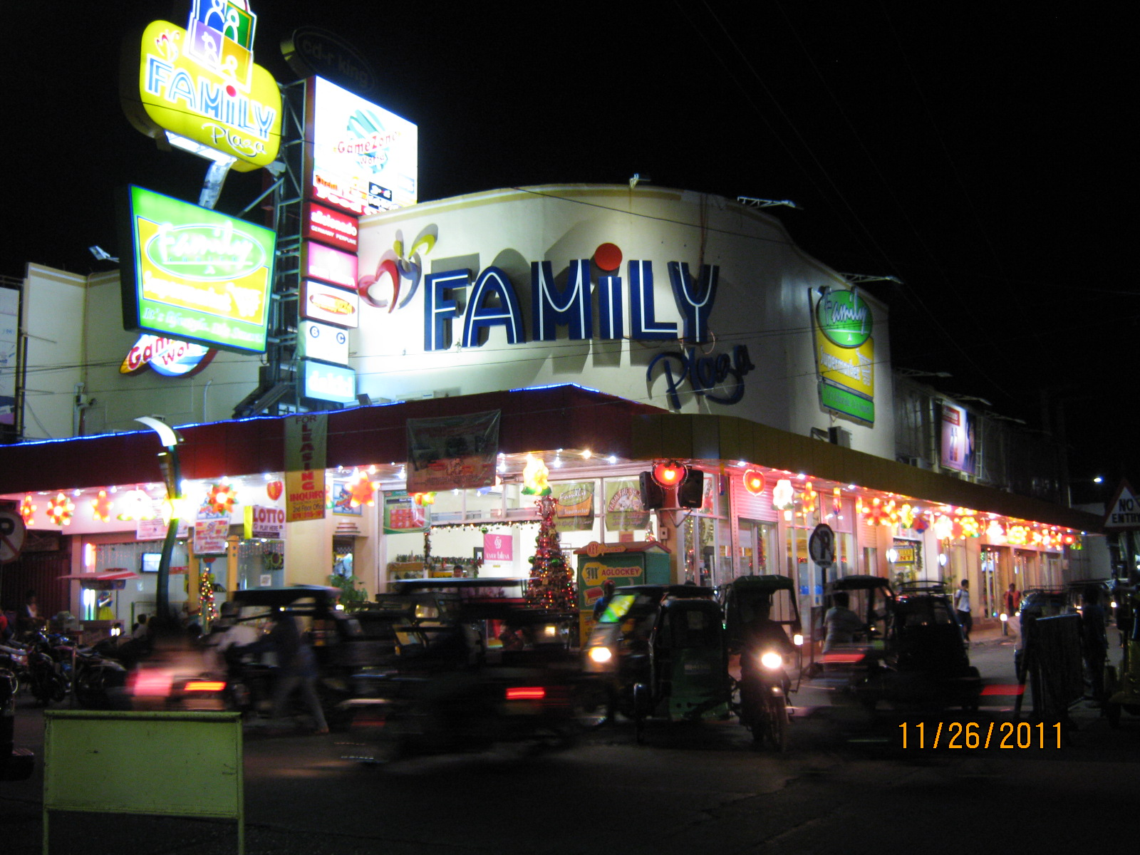 My Family Plaza is the 1st and only Shopping Mall in the Beautiful City of Santiago.